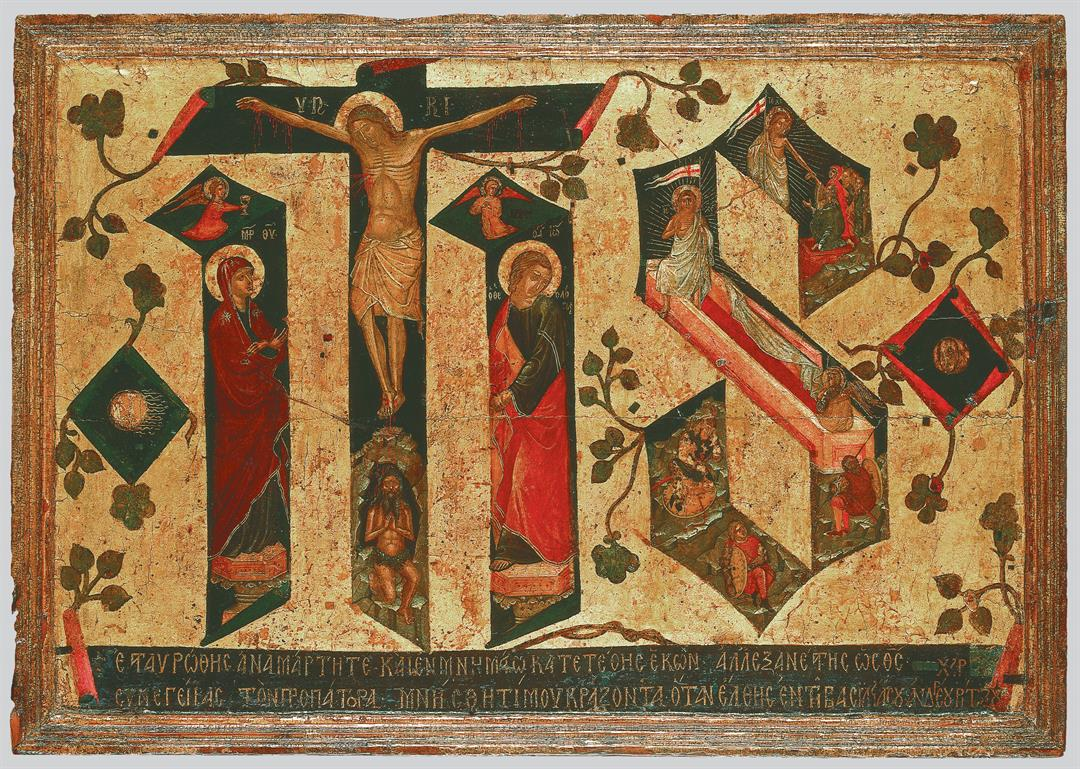 Jesus Hominum Salvator Depictions of the Crucifixion, the Resurrection and the Descent into Hell are combined in the initials of the abbreviated Latin inscription I(esus) H(ominum) S(alvator) (Jesus Saviour of Mankind), the emblem of the Franciscans. The Crucifixion is represented in the first two letters. In the letter S are depicted two successive scenes with the Risen Christ: The Anastasis, the Byzantine version of the Descent into Hell with the raising of the dead and the Western version of the Resurrection with Christ triumphant rising from the tomb. At the bottom on a black band with gold lettering, the Parakletike (Intercessionary) troparion, which is read at the early morning service on a Sunday, is inscribed. Laboratory examination of the icon showed that the troparion and the name of the artist were added later, but they are identical to the initial incriptions. The composition, unknown in either Byzantine or Western iconography, must be a creation of the Cretan artist Andreas Ritzos. This unique and original subject of the I H S is one of the most important examples of Italo-Cretan painting and shows the artist's familiarity with Western painting, as a result of the conditions prevailing in Venetian-ruled Crete in the 15th century. The icon is, possibly, the one mentioned in 1611 in the will of the noble Andreas Kornaros, who was a member of an old Veneto-Cretan family and a prominent scholar. If the identification of the icon is correct, Andreas Kornaros had bequeathed the icon in an important individual in Venice, emphasizing its importance. Origin: Crete island Creator: Andreas Ritzos Measurement: 44,5 x 63,5 cm Exhibit Number: ΒΧΜ 01549